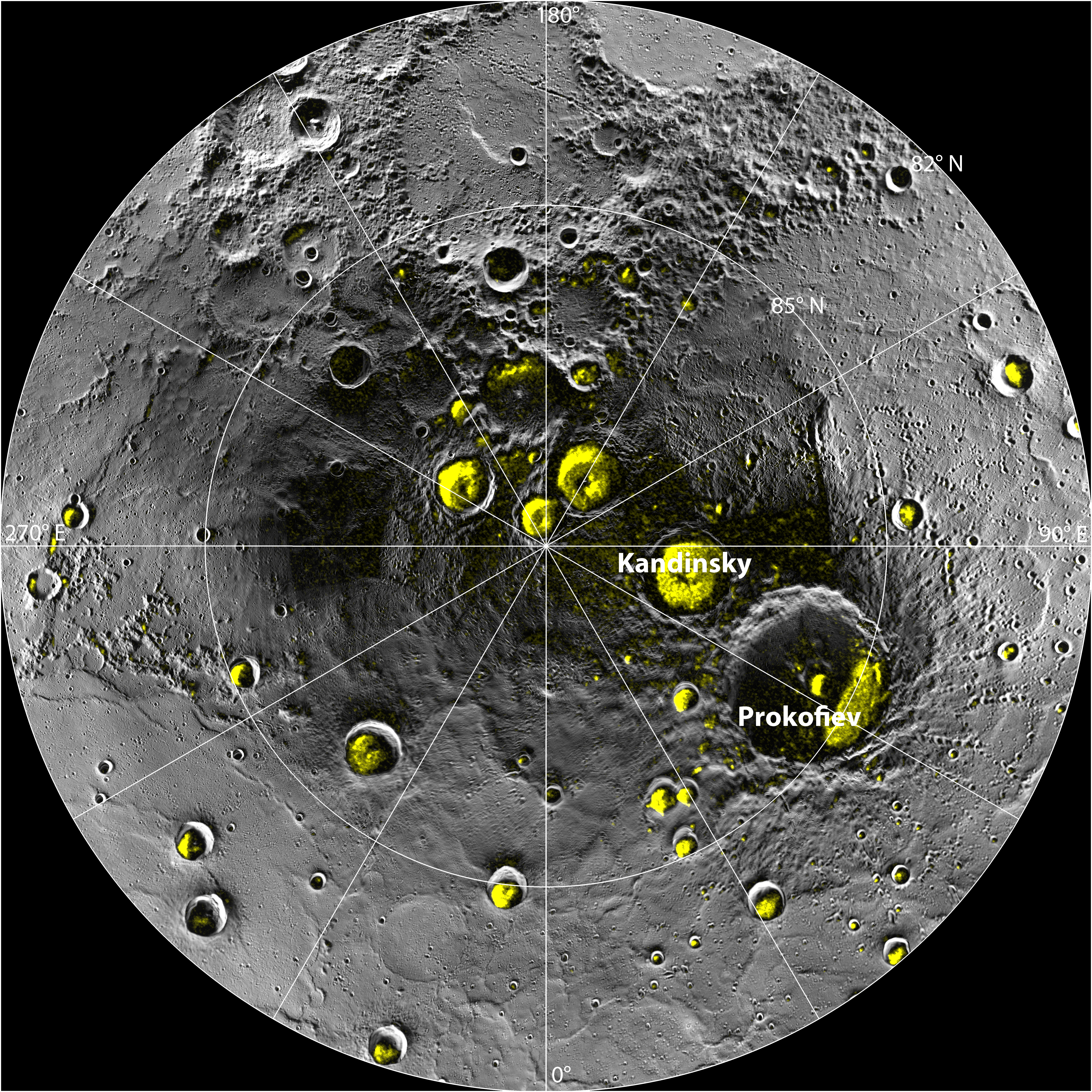 Radar image of Mercury's north polar region acquired by the Arecibo Observatory (yellow areas denote regions of high radar reflectivity) is shown superposed on a mosaic of MESSENGER images of the same area. All of the larger polar deposits are located on the floors or walls of impact craters. Deposits farther from the pole are seen to be concentrated on the north-facing sides of craters.